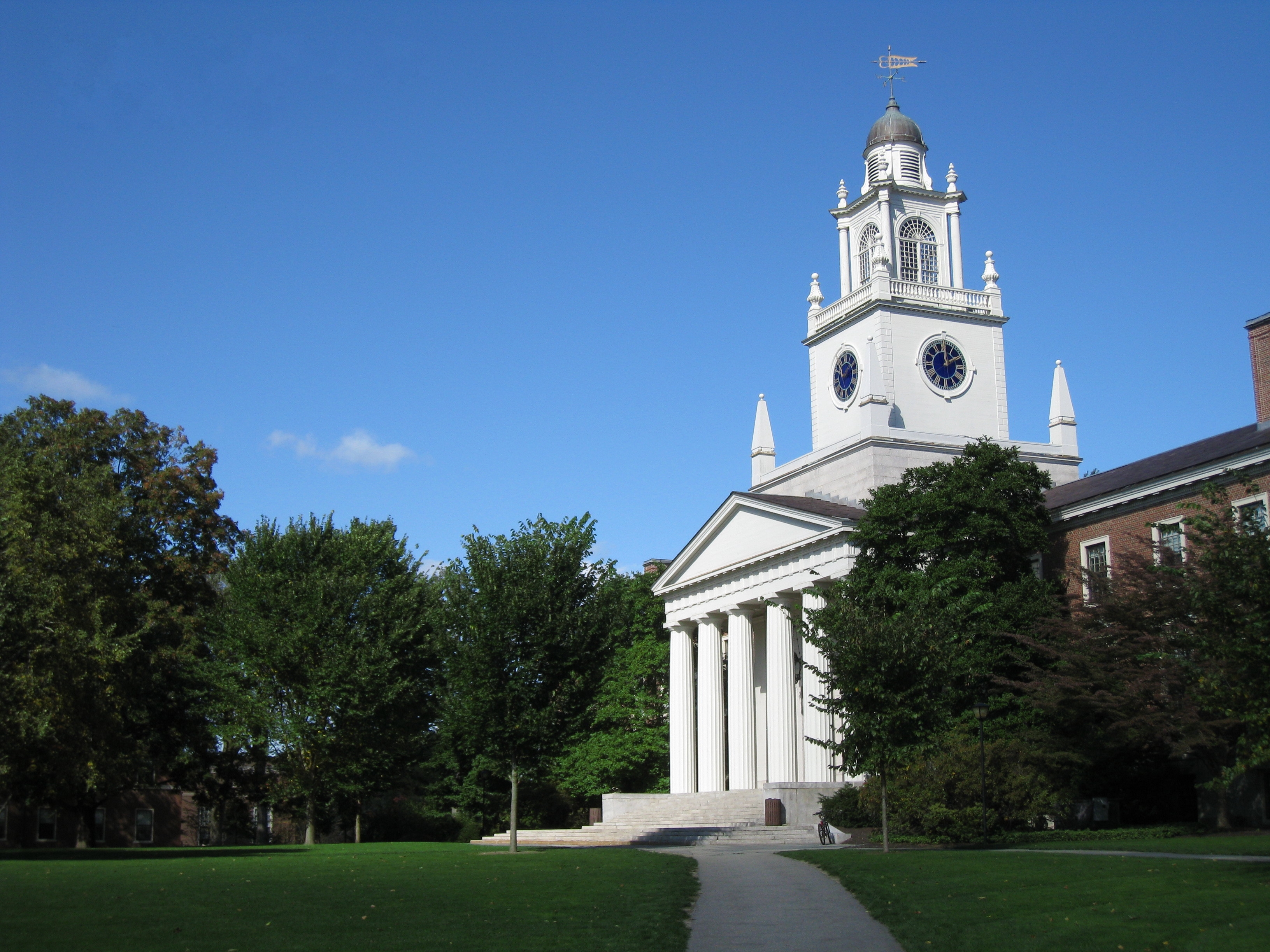 Samuel Phillips Hall, Phillips Academy